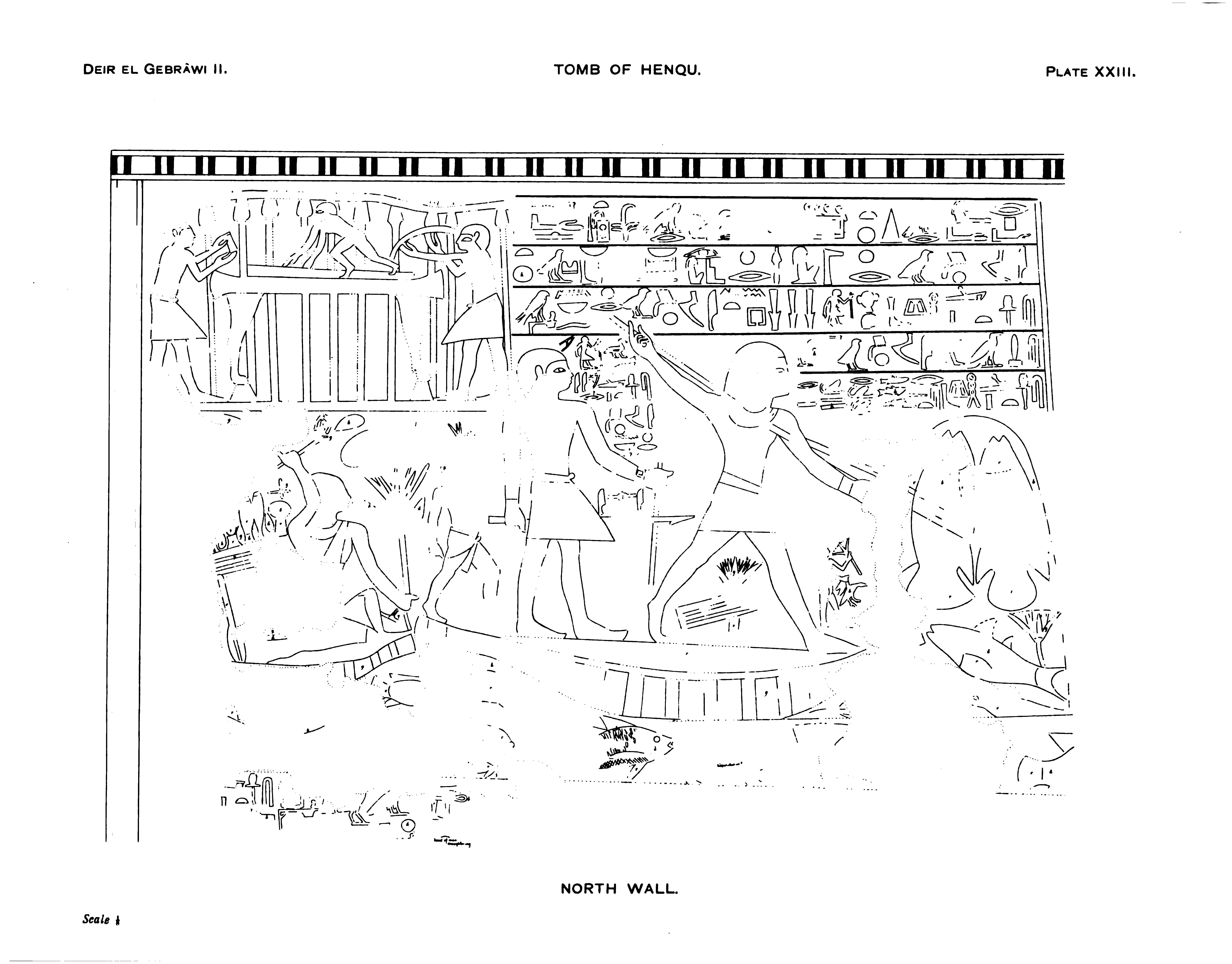 Deir el-Gebrawi rock tomb N67 (Henqu II)